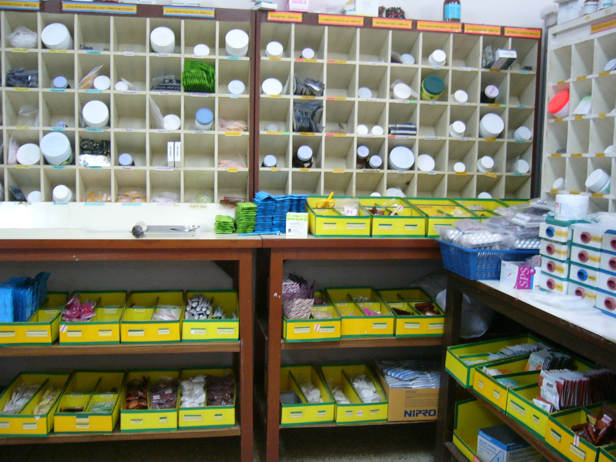 Partial look into the Pharmacy, Public Hospital Na Wa, Nakhon Phanom Province, Thailand.